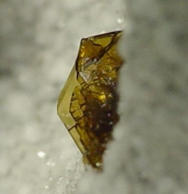 Fayalite, Cristobalite Locality: Little Lake Perlite deposits (Desert Materials Corp. deposit), Little Lake area, Coso Hot Springs, China Lake Naval Ordnance Test Station, Coso District (New Coso District), Coso Mts (Coso Range), Inyo County, California, USA (Locality at ) Size: 6 x 4.9 x 4.1 cm. Amygdaloidal obsidian is the matrix for an open "egg" of light gray, cristobalite ( a tetragonal polymorph of quartz) which lines the inside. Perched inside the cristobalite vug is a gemmy, yellow-green crystal, 0.2 cm across, of fayalite. Ex. Martin Zinn Collection.